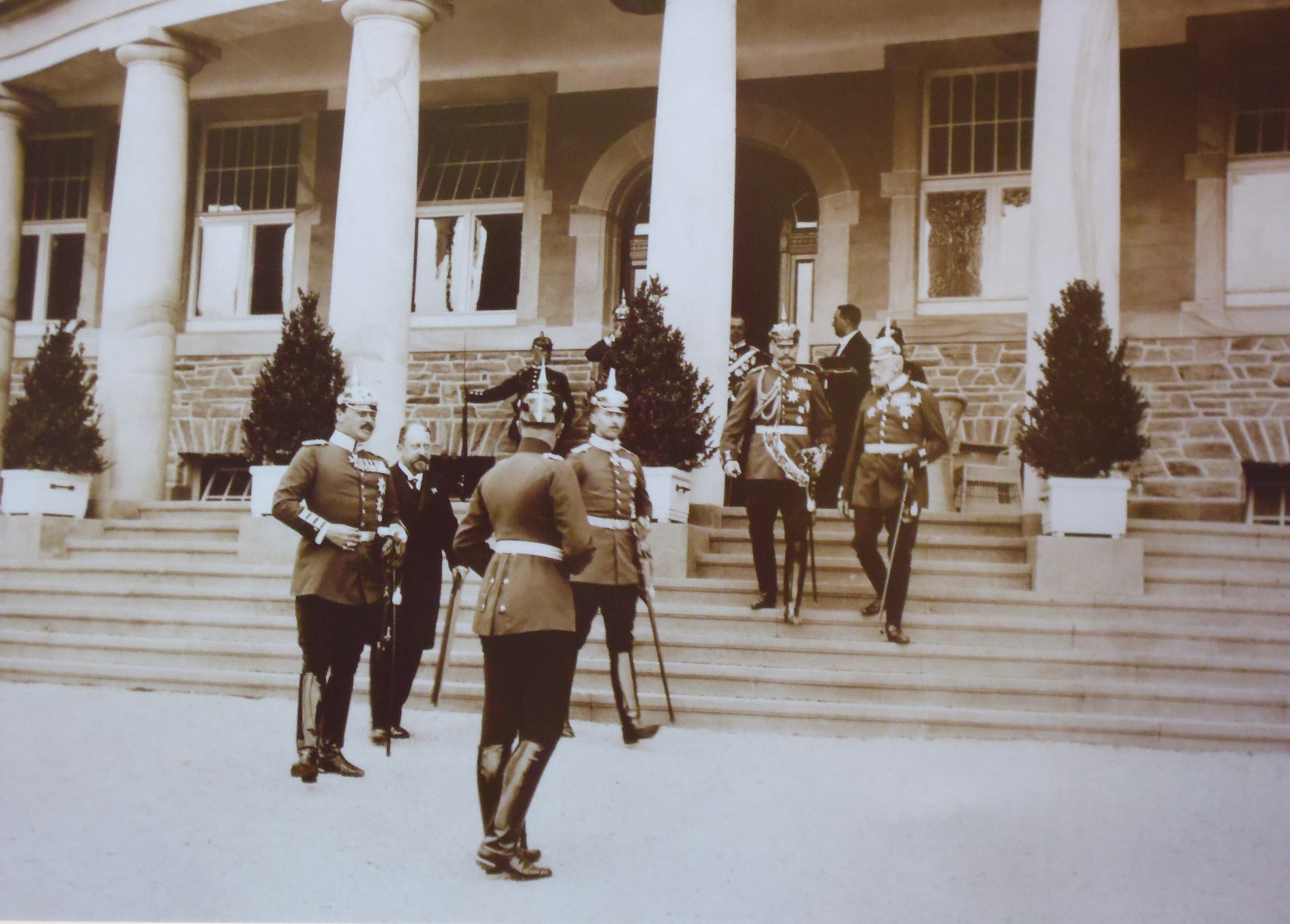 Grand opening Officers lounge Falkenstein 1909